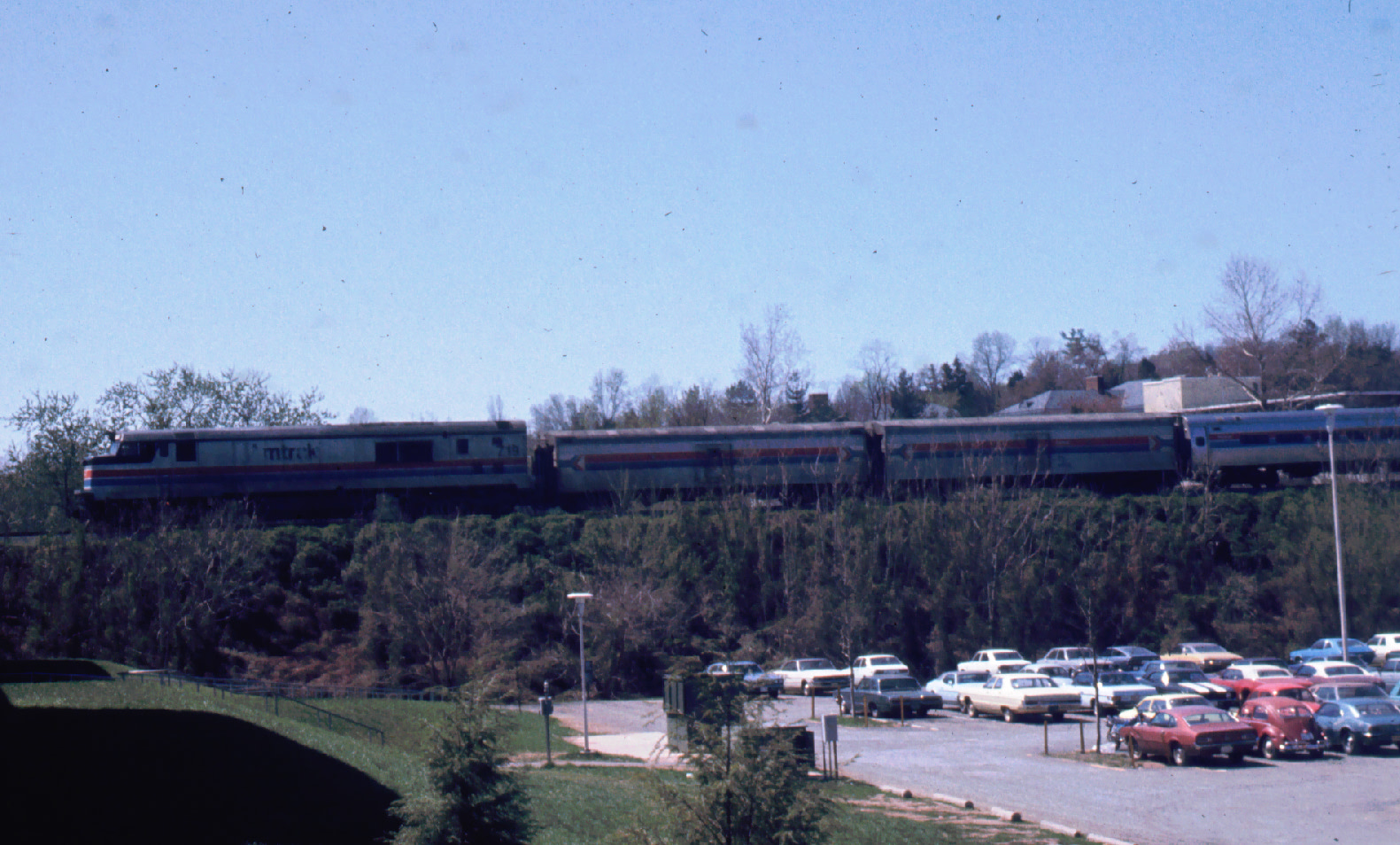 Amtrak's eastbound James Whitcomb Riley passing through the University of Virginia campus in Charlottesville in March 1977